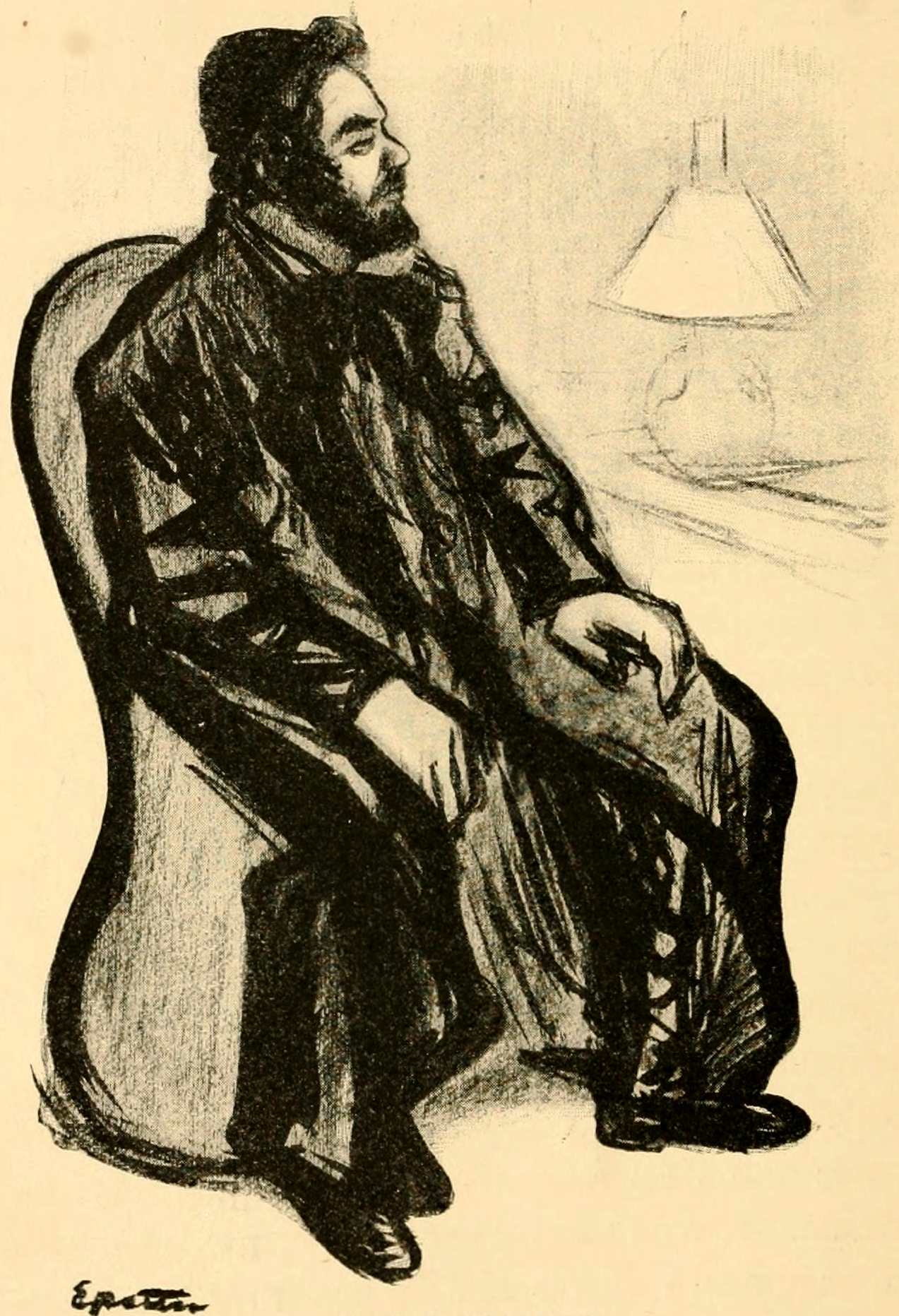 From :The spirit of the Ghetto; studies of the Jewish quarter in New York